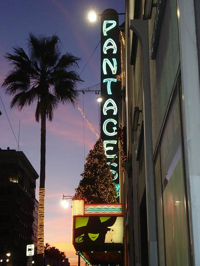 The Pantages Theater in Hollywood